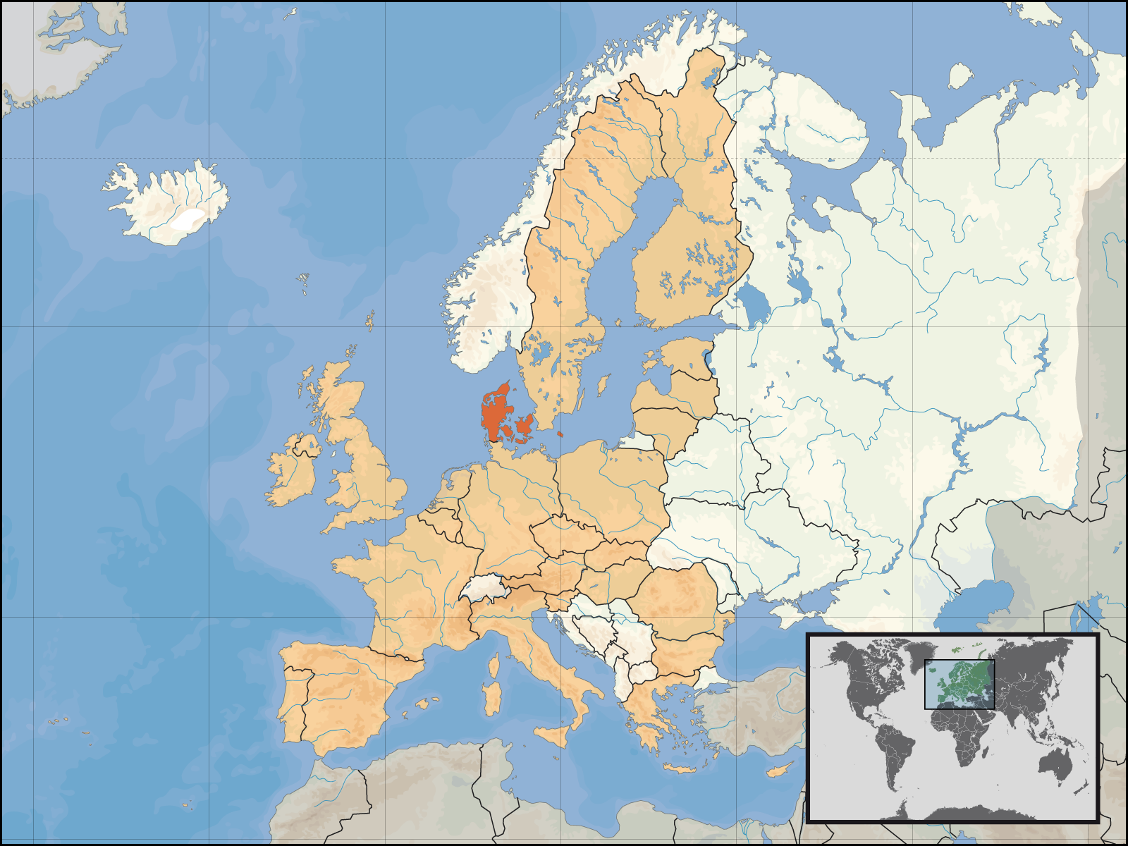 Location of Denmark within Europe and the European Union on the 1st of January 2007.